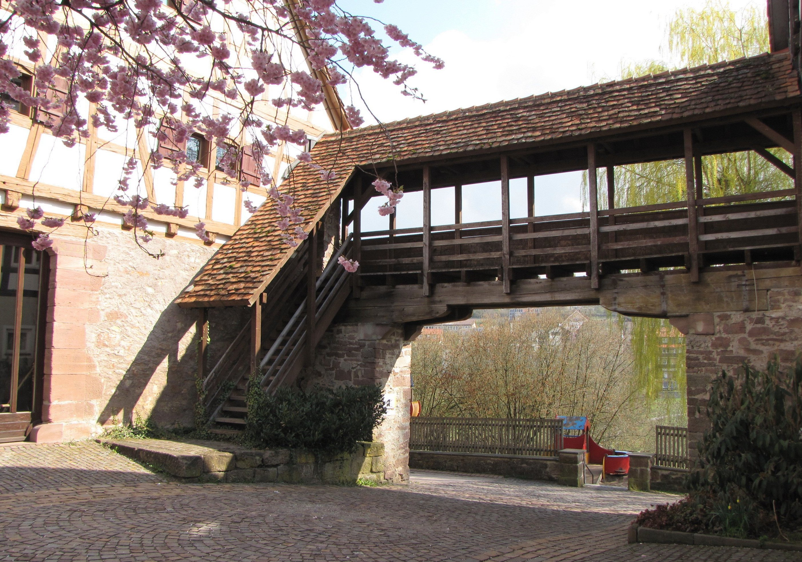 Dornstetten